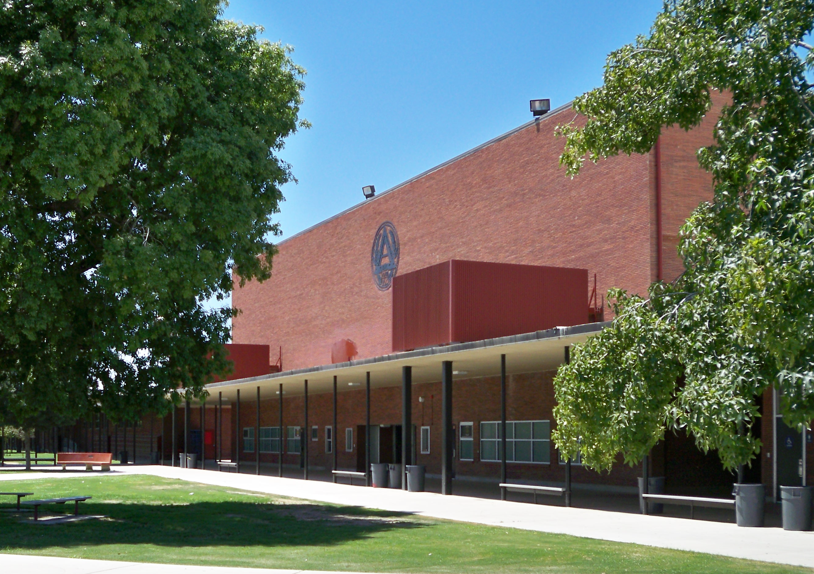 AHS Gymnasium